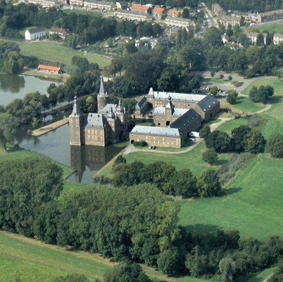 Airpicture of Hoensbroek Castle